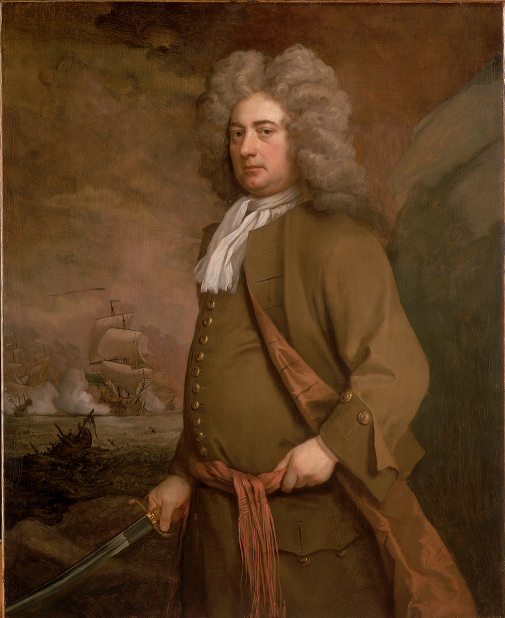 Admiral and MP